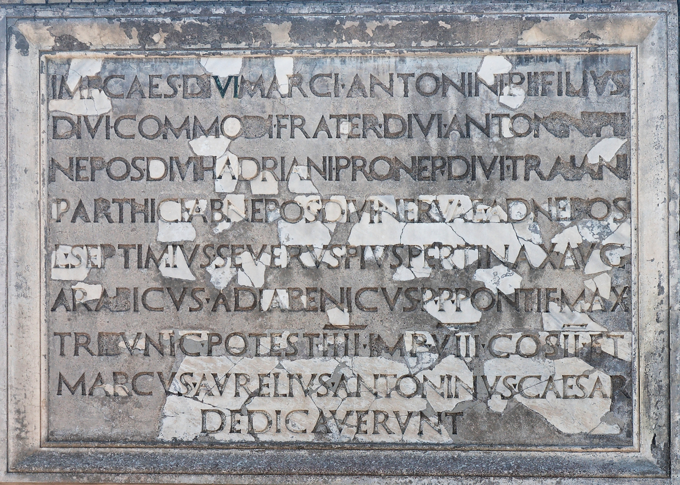 Dedicatory inscription by Septimius Severus and Caracalla. Marble slab with (lost) bronze letters. Theatre, Ostia Antica.